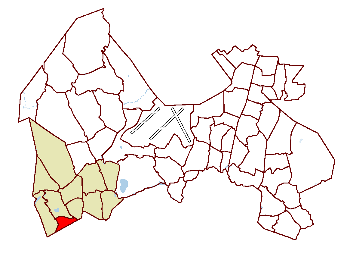 District of Hämevaara (marked red), within Myyrmäki service area (marked light brown) in Vantaa, Finland